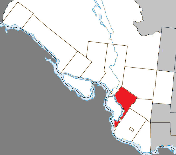 Location of Litchfield, Quebec within Pontiac Regional County Municipality.